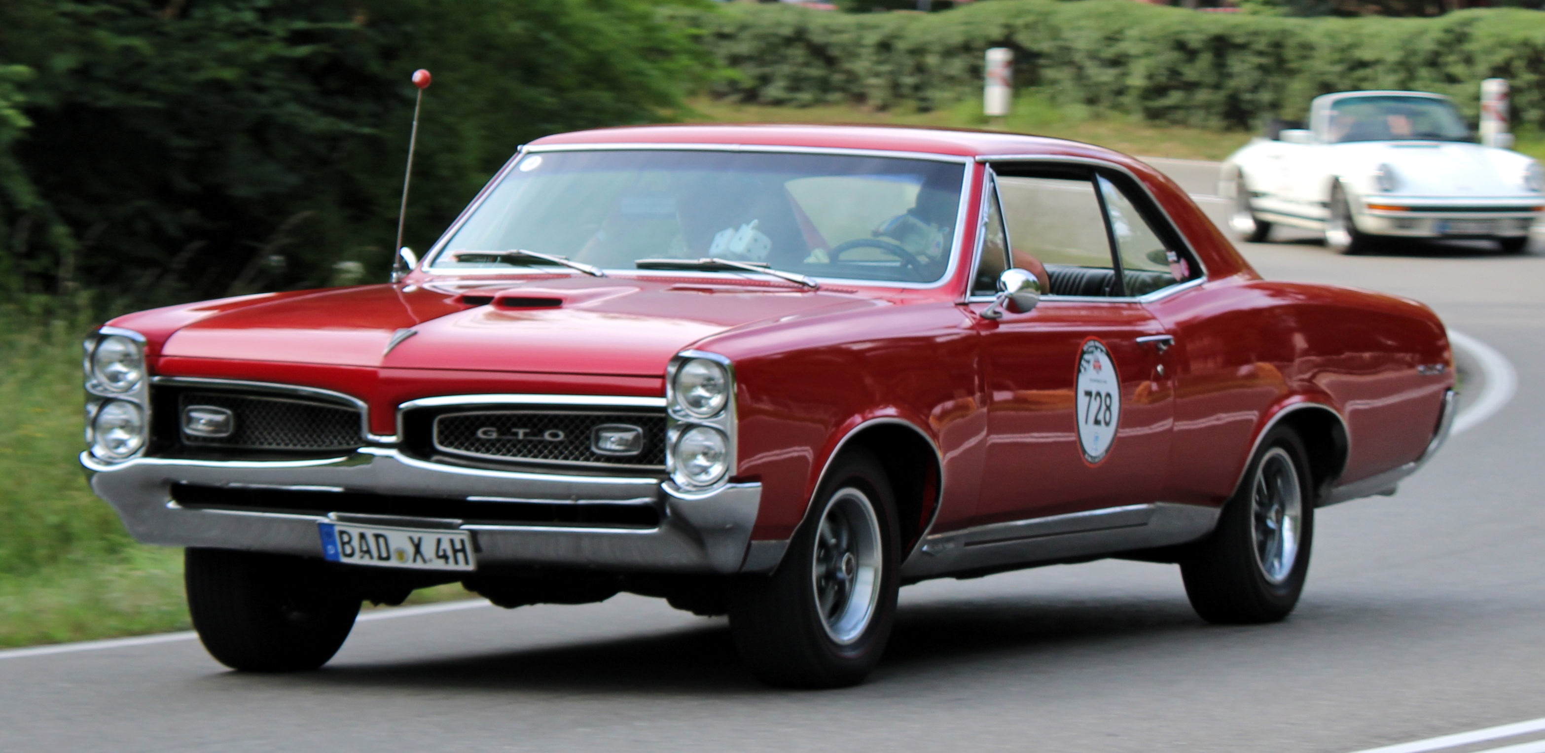 Pontiac GTO (1967) at Solitude Revival 2019